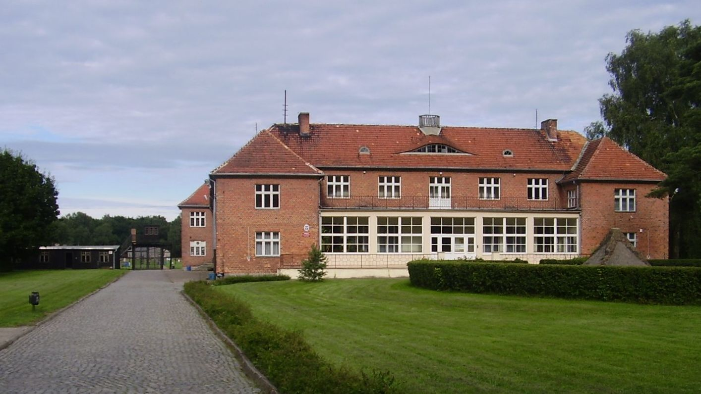 Stutthof